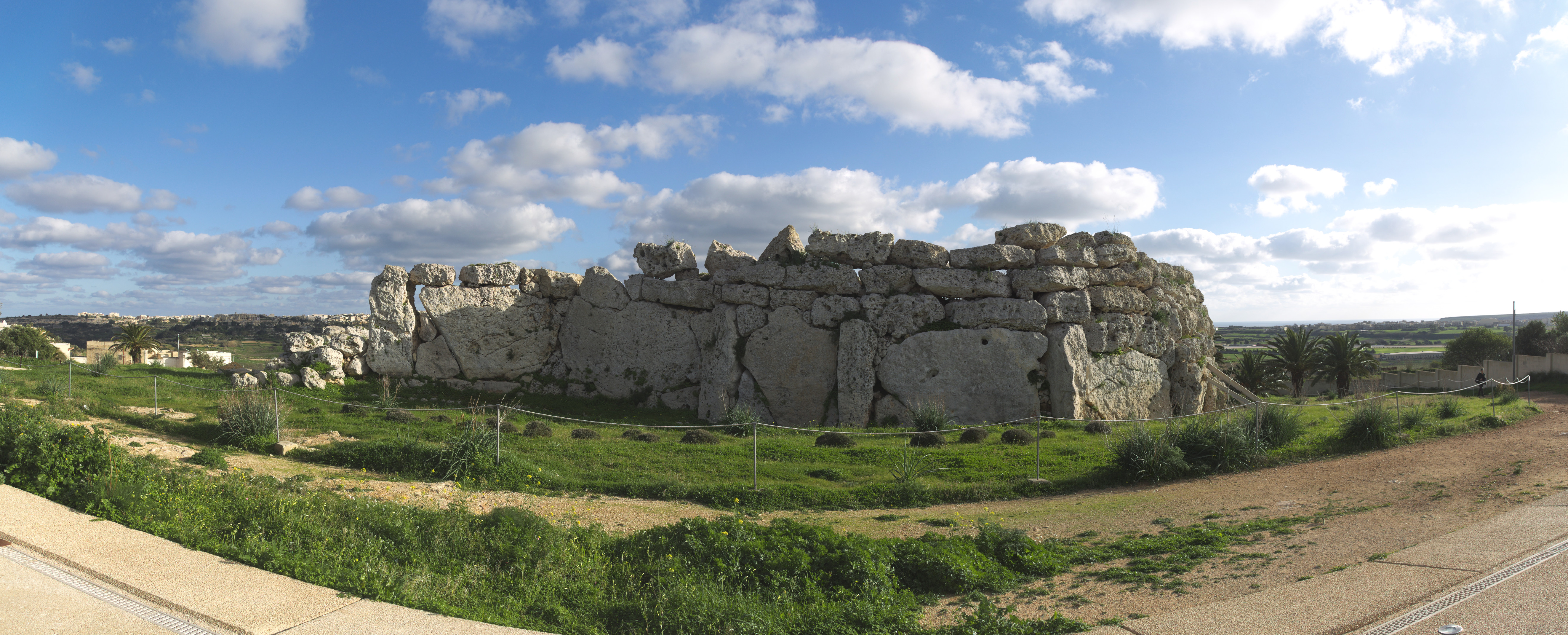 Photo stitch of the north wall of Ġgantija at Gozo.